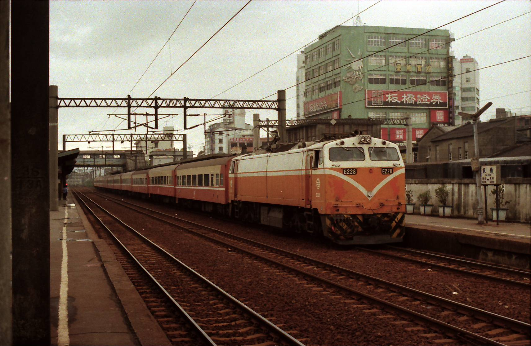 Taiwan Railway Administration Number E228 (Class E200) electric locomotive at ex-Banqiao station on the ground, West Main Line. year 1989.